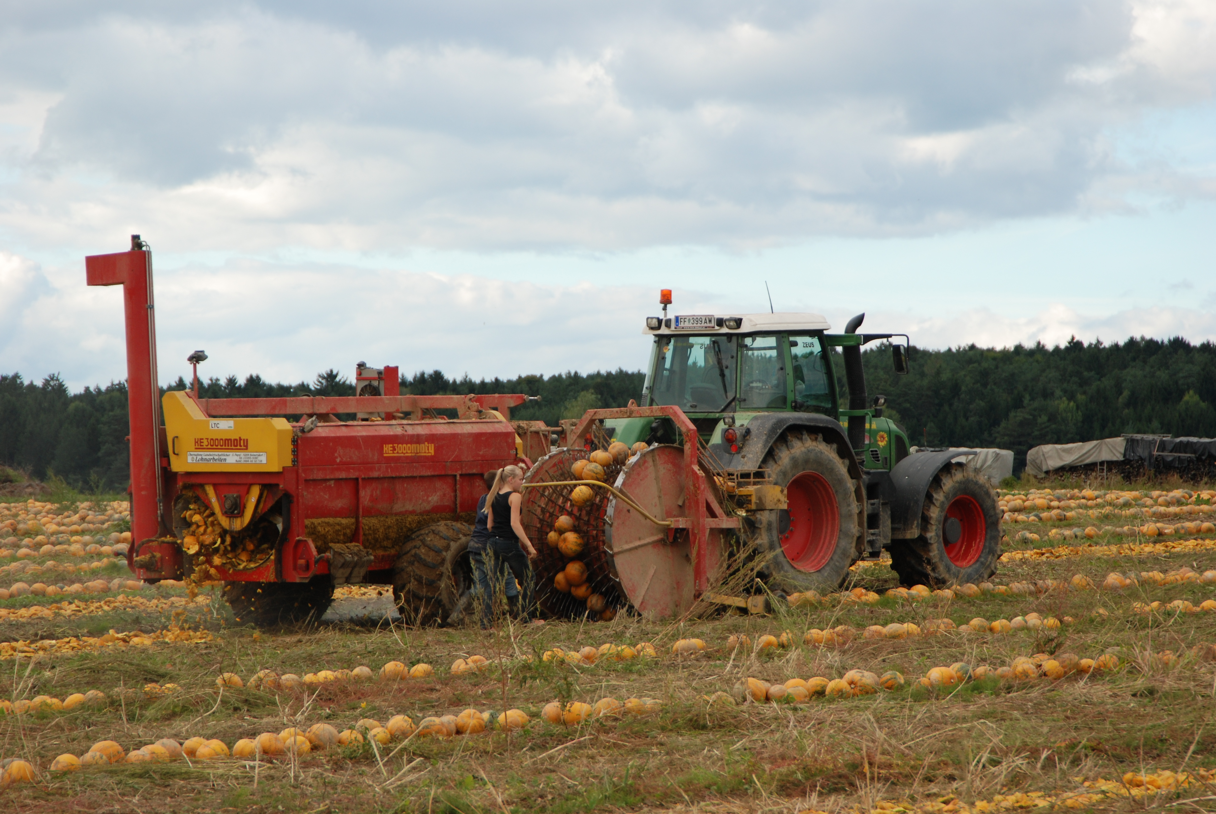 Pumpkin seed oil